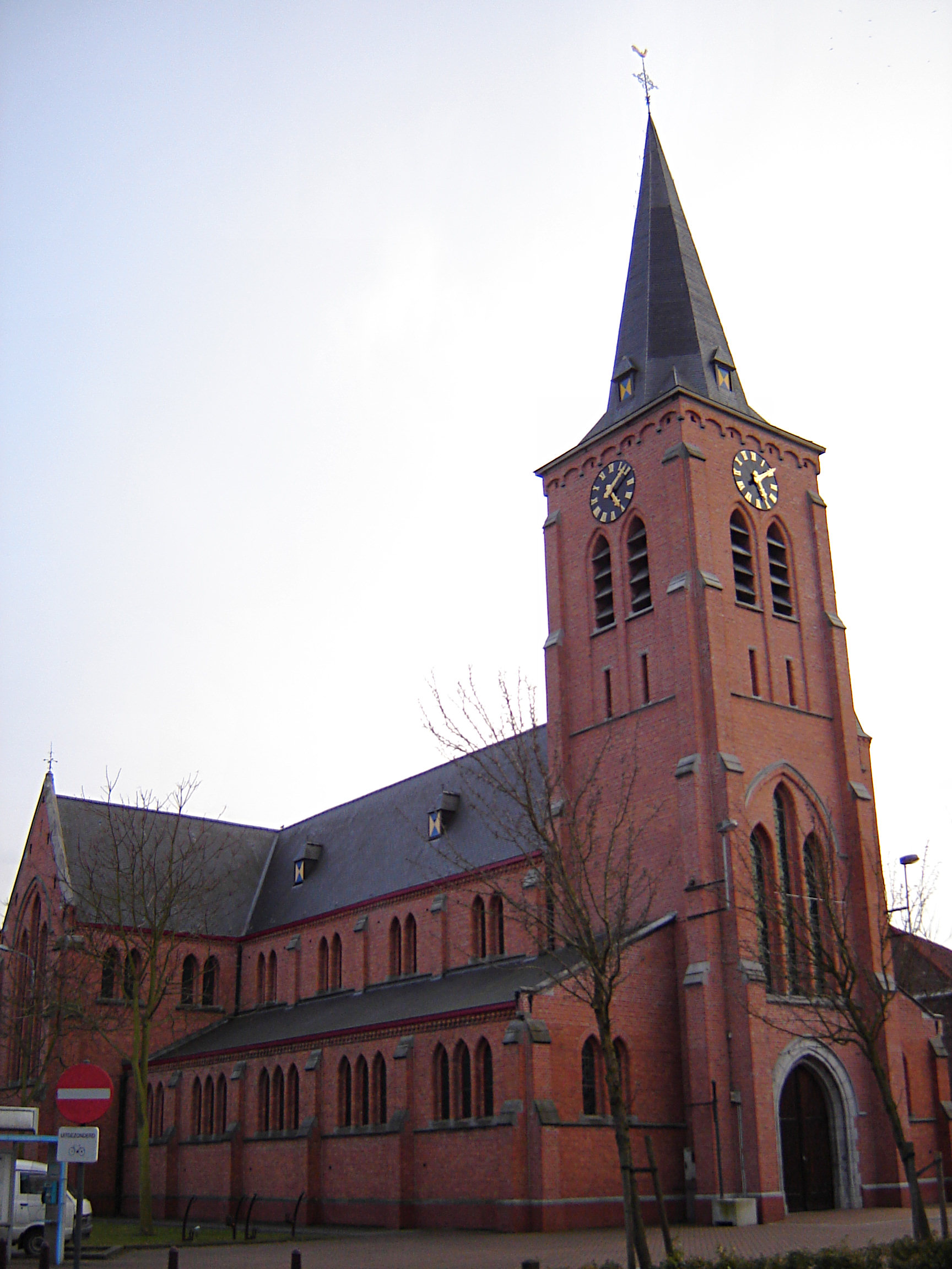 Church of Saint Joseph in Velle. Velle, Temse, East Flanders, Belgium